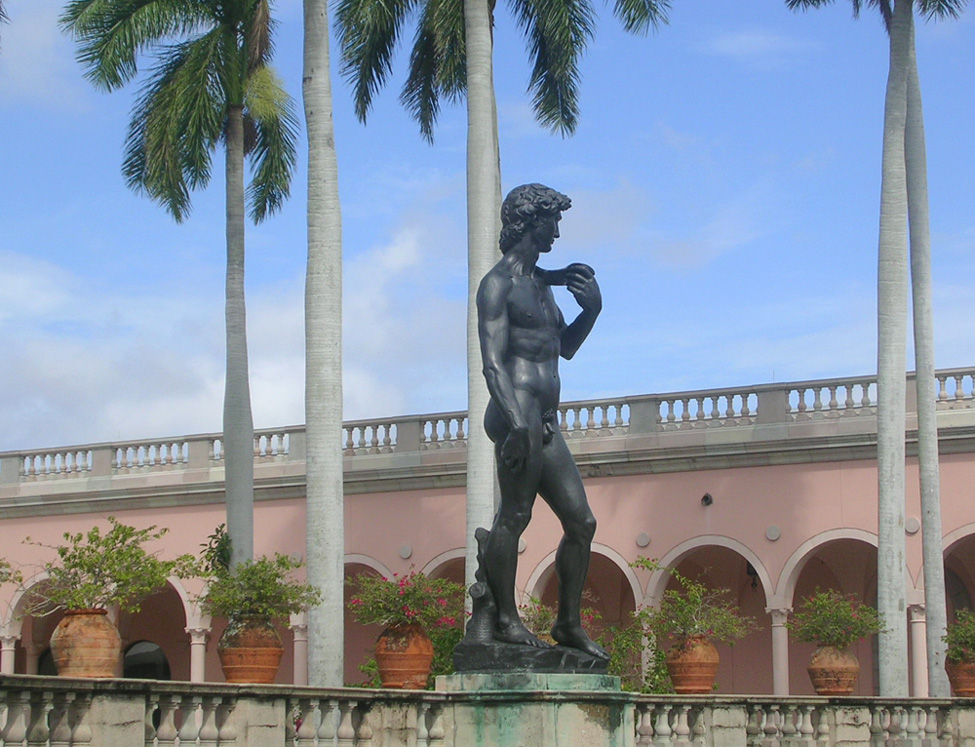 A bronze copy of Michelangelo's famous sculpture of David, in the courtyard at the John Ringling Museum in Sarasota. The original, which is 5.17 m (17 ft) high, is in Florence, Italy, and was sculpted from marble This copy is probably the same size. The sculpture is used as a symbol of the city of Sarasota.